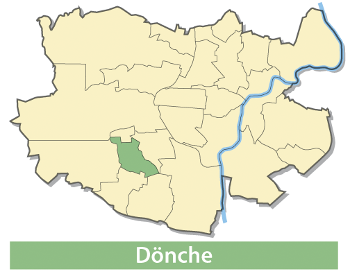 Map of nature reserve Dönche in Kassel